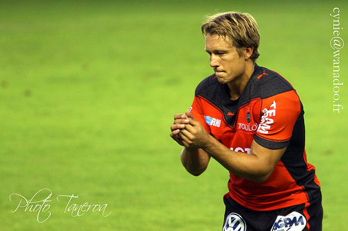 Jonny Wilkinson avec le Rugby club toulonnais. Prise le 14 août 2009. Jonny Wilkinson with French team Rugby club toulonnais. 14 August 2009.